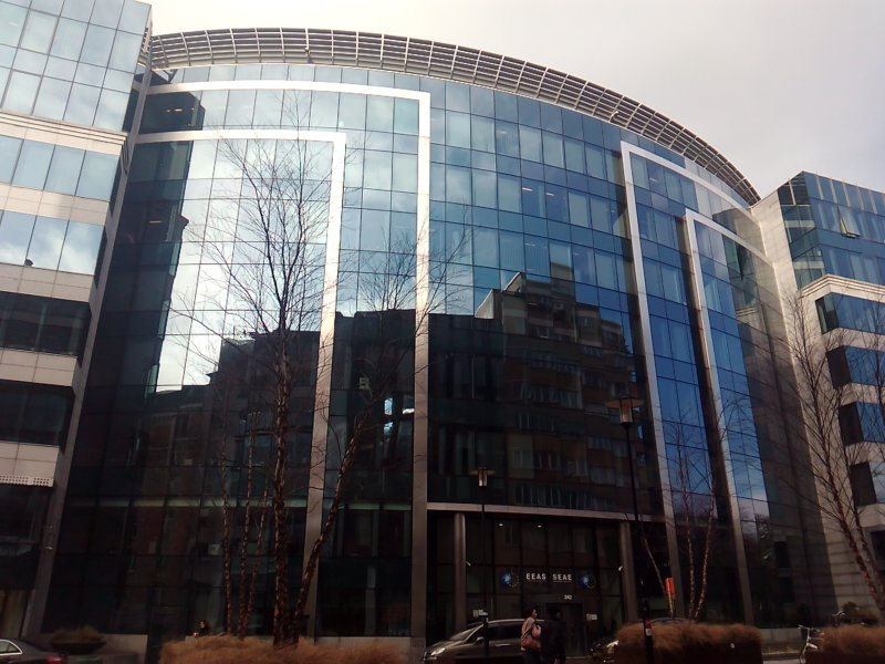 Brussels - European External Action Service building. Rue de la Loi, 1000